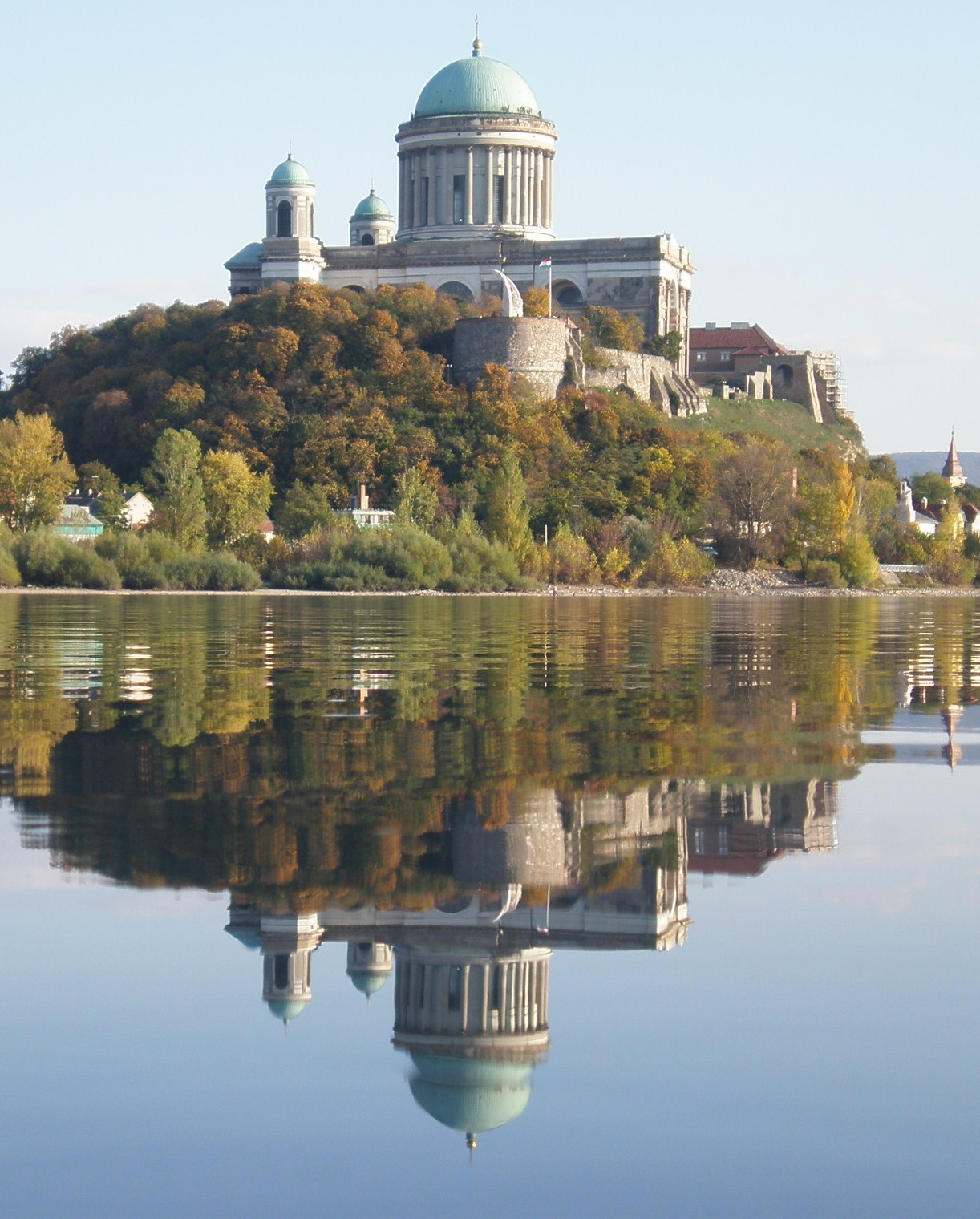 Basilica in Esztergom, Hungary. Picture taken from Štúrovo, Slovakia